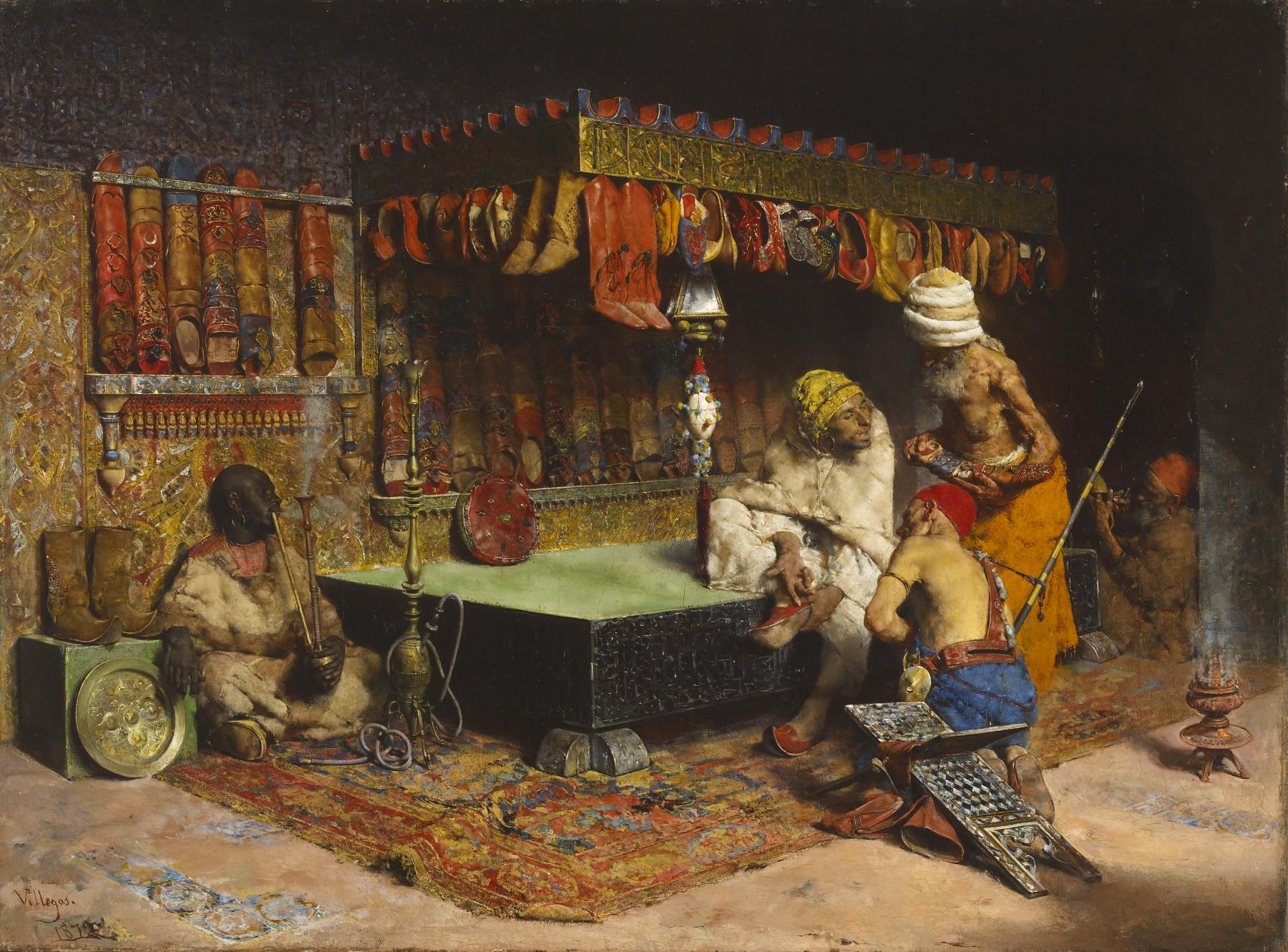 In the dimly lit, richly colored interior of a North African shop, a turbaned merchant serves a customer seated on a divan. Kneeling in front is an attendant, and barely discernible in the background is a craftsman at work. To the left, a man smokes a hookah. Villegas has adopted a subject made popular by Mariano Fortuny, but rather than exploring light effects, he provides an almost overwhelmingly detailed array of bric-a-brac. Even the picture frame, custom-ordered for this painting, is inscribed in Naskh script: "There is no God but Allah and Mohammed is his Prophet."